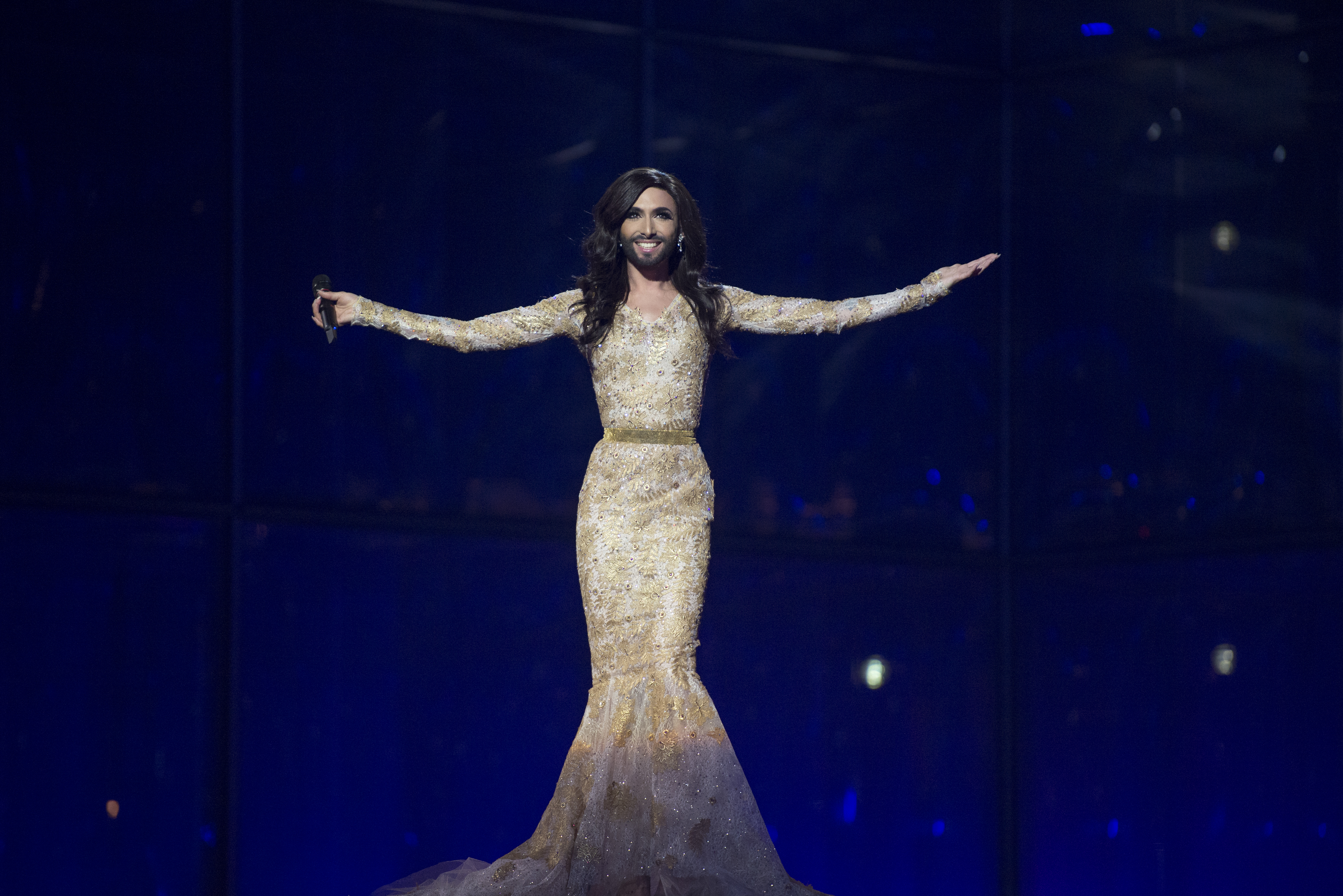 Conchita Wurst representing Austria with the song "Rise Like a Phoenix" during the first dress rehearsal of the second semi final of the Eurovision Song Contest 2014 Copenhagen. (Help translate this text)